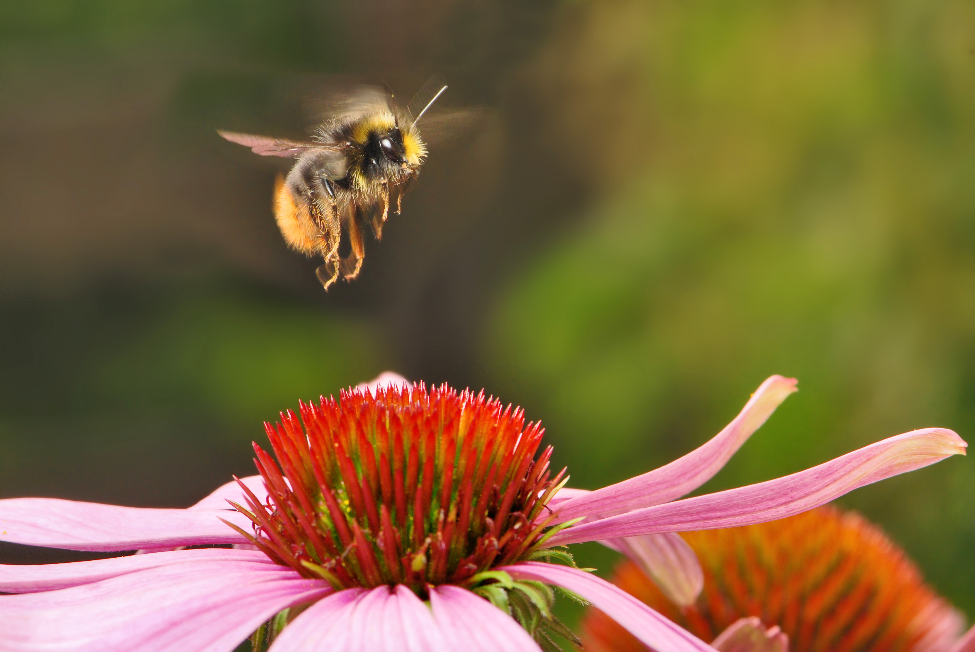 The early bumblebee (Bombus pratorum) is one of the smaller bumblebees. It can be found throughout Europe, except for the Iberian peninsula. The specimen in the picture is a male. It is landing on an Echinacea purpurea flower.